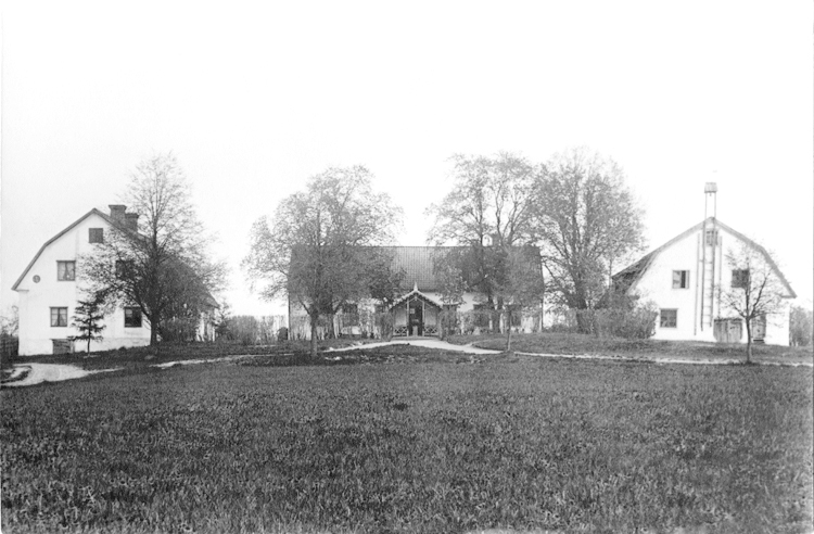 Viksjö gård, Järfälla socken, vid 1900-talets början. Bilden visar Viksjö gård, tagen före huvudbyggnadens ombyggnad. Att lägga märke till vällingklockan på högra flygelbyggnaden.